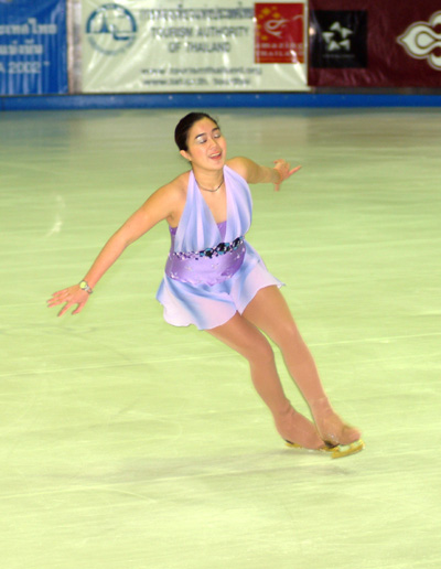 Skate Asia 2004 Photographers. Amy Alisara Arirachakaran